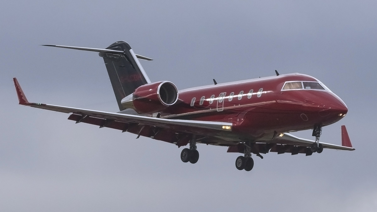 G-LCDH CL60(601) TAG Aviation VKO